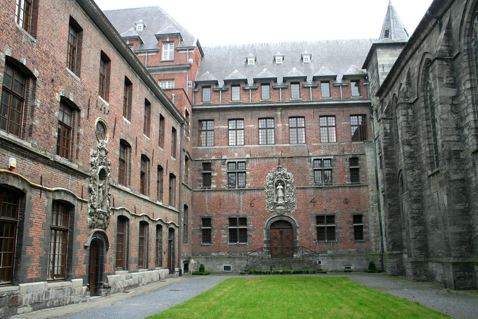 Tournai (Belgium), the episcopalian seminary (1640).